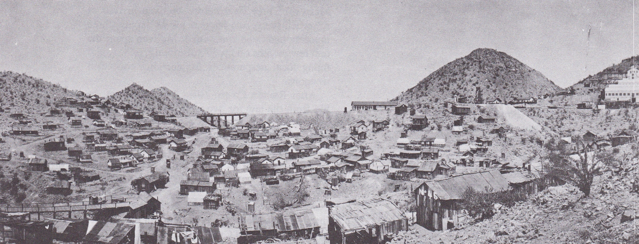 Town of Silverbell, Arizona. Circa 1910